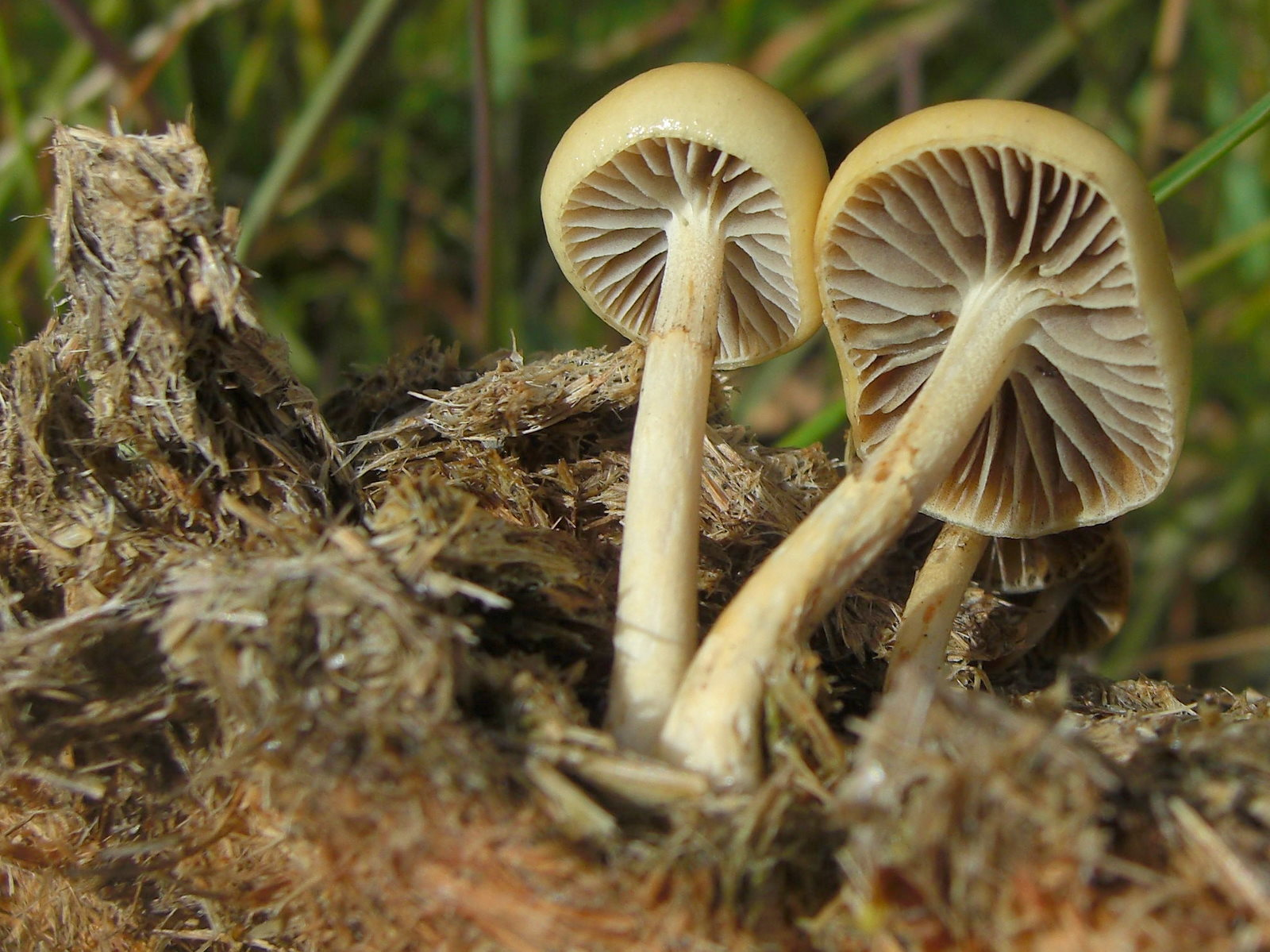 Fruit bodies of the agaric fungus Stropharia semiglobata (Batsch) Quél., found growing on llama dung. Photographed in southern Tierra del Fuego, Tierra del Fuego, Argentina.